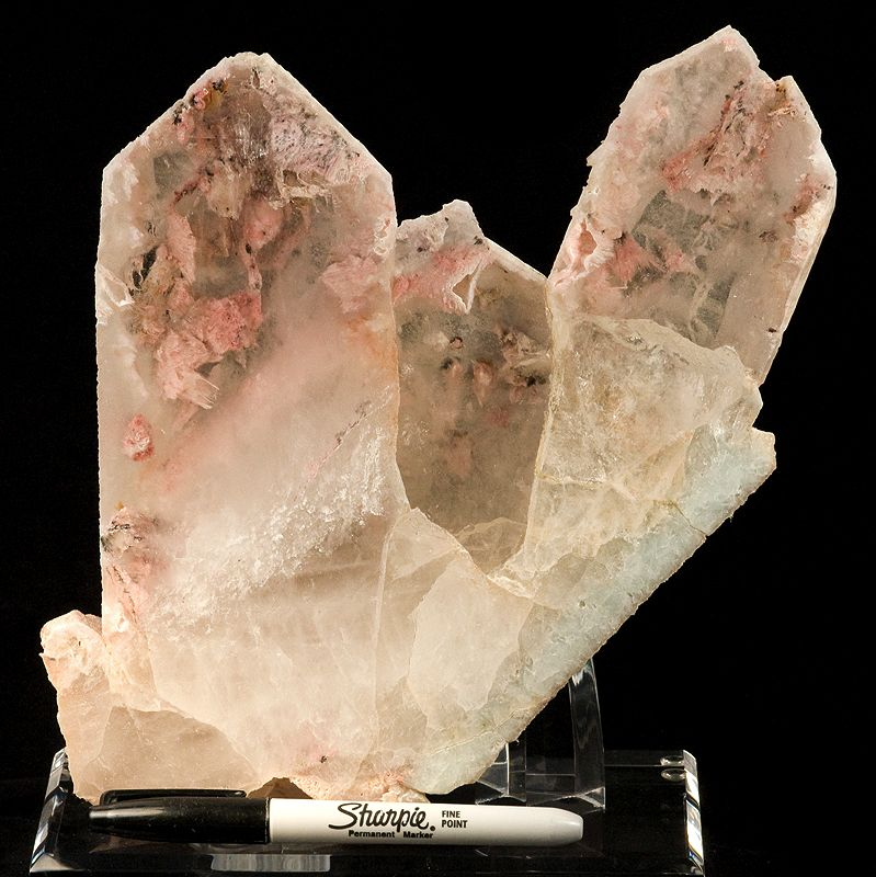 Montmorillonite, Quartz Locality: White Queen Mine, Hiriart Mountain (Heriart; Heriot; Hiriat Hill), Pala District, San Diego County, California, USA (Locality at ) Size: large cabinet, 24.5 x 18.7 x 5.7 cm Quartz included by Montmorillonite This is a beautiful cluster of unusually large quartz crystals, richly included with the pink mineral montmorillonite. The White Queen is as well known for this combination, as for its famous morganites. This specimen is a level of magnitude higher than most others, in that it is large, beautiful, and complete. It was sawed down the middle, and each half mounted so they could be displayed to show the inclusions and the form to maximal visual effect. The reverse sides are complete, by the way, showing the outer milky quartz. Each weighs about 7 pounds. It is incredible to me that this specimen came out in one piece and was not repaired. Amongst many others in the Pala collection, this was the finest large example. Second photo shows the other half. Ex. William Larson Collection.